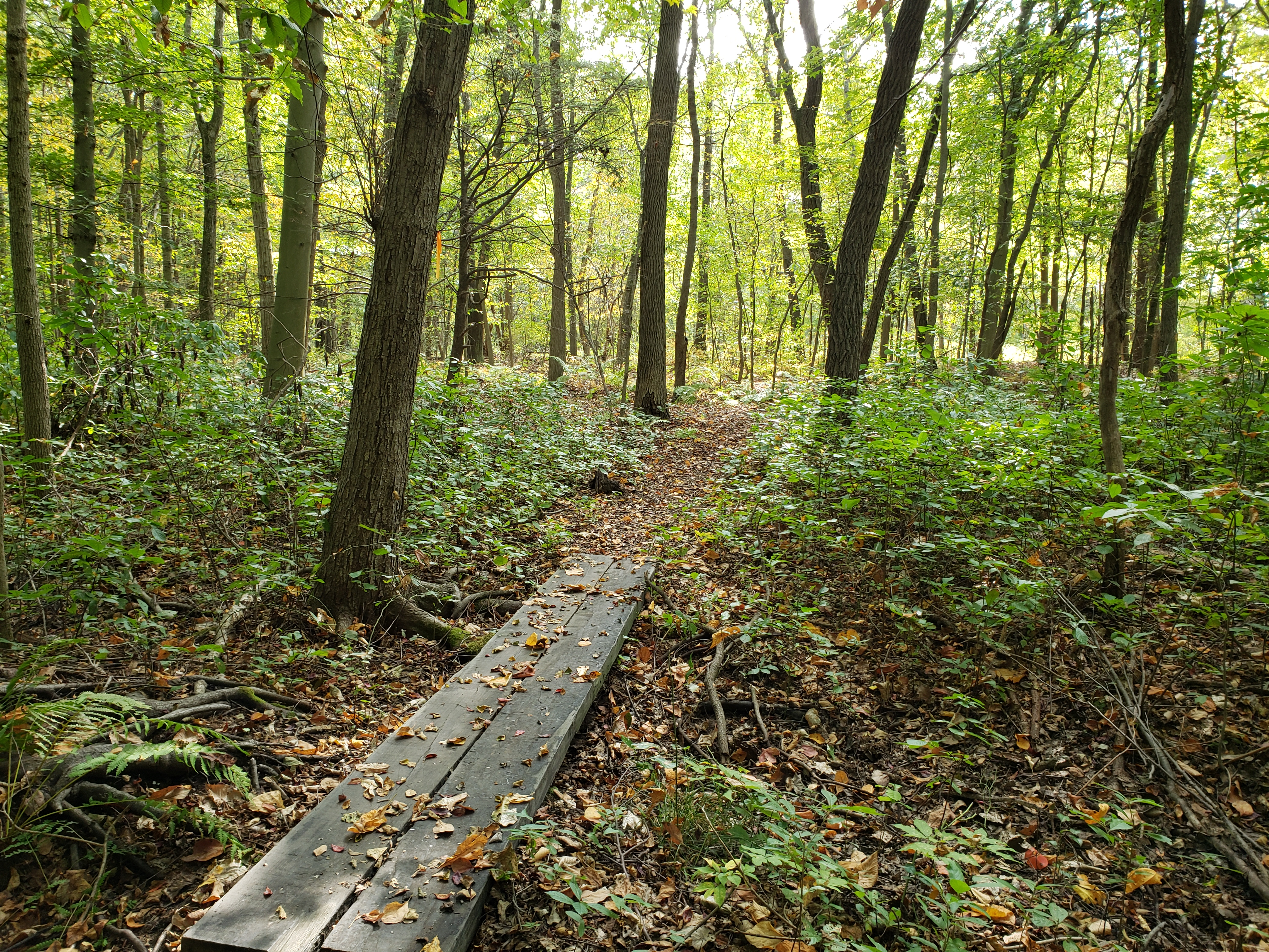 The deciduous woodlands of Freneau Woods Park, in Aberdeen New Jersey. Taken in October 2019, Inspiration Point Trail